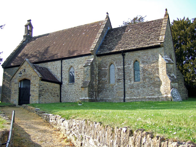 St Peter's parish church, Goathill, Dorset, seen from the southeast